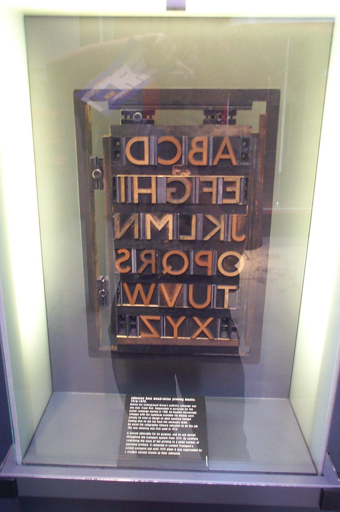 Johnston Sans printing blocks, seen in London's Transport Museum.